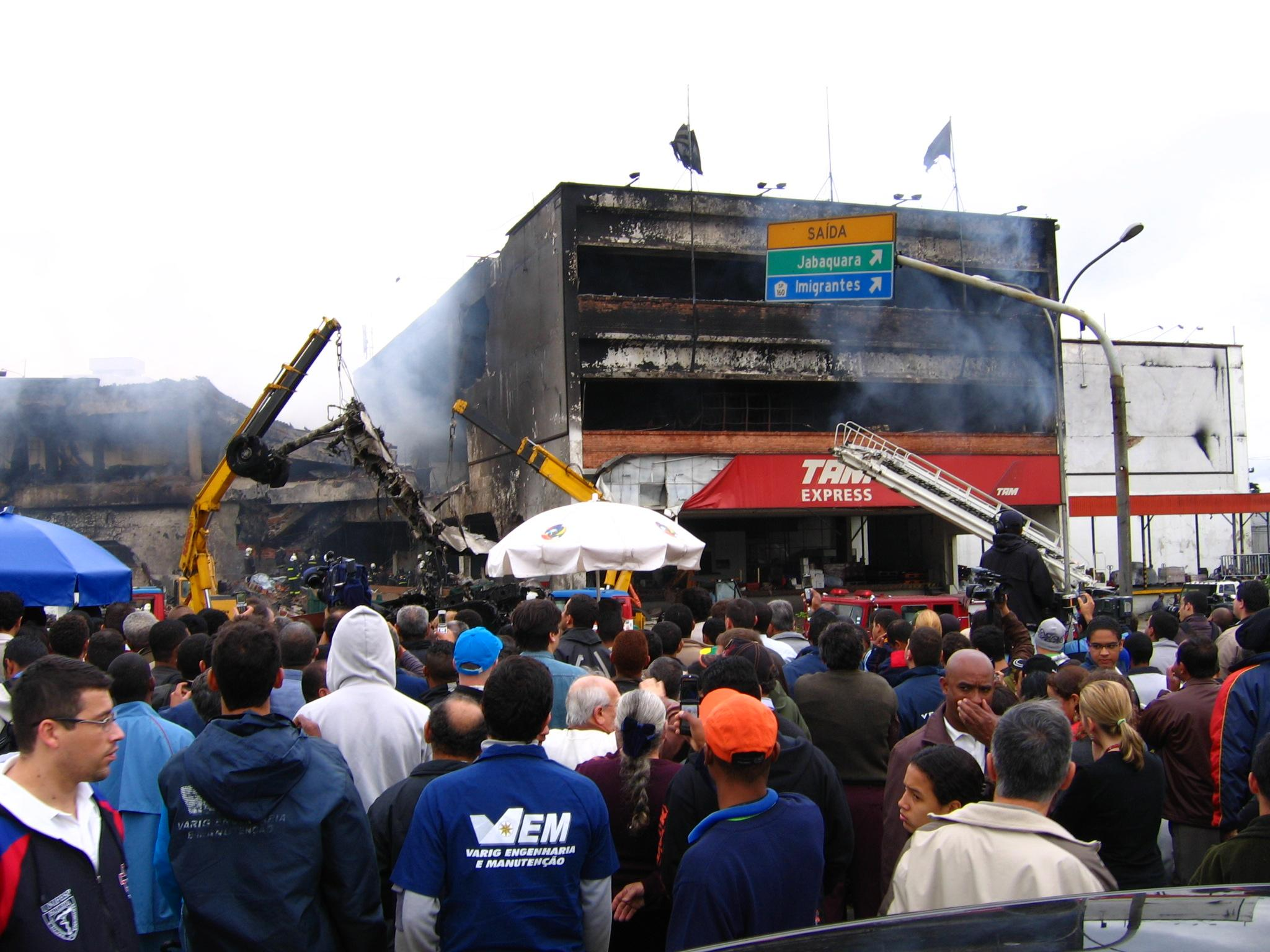 View of the TAM Airlines Flight 3054 crash site.